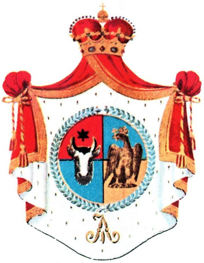 Proposed coat of arms of Romania, 1862